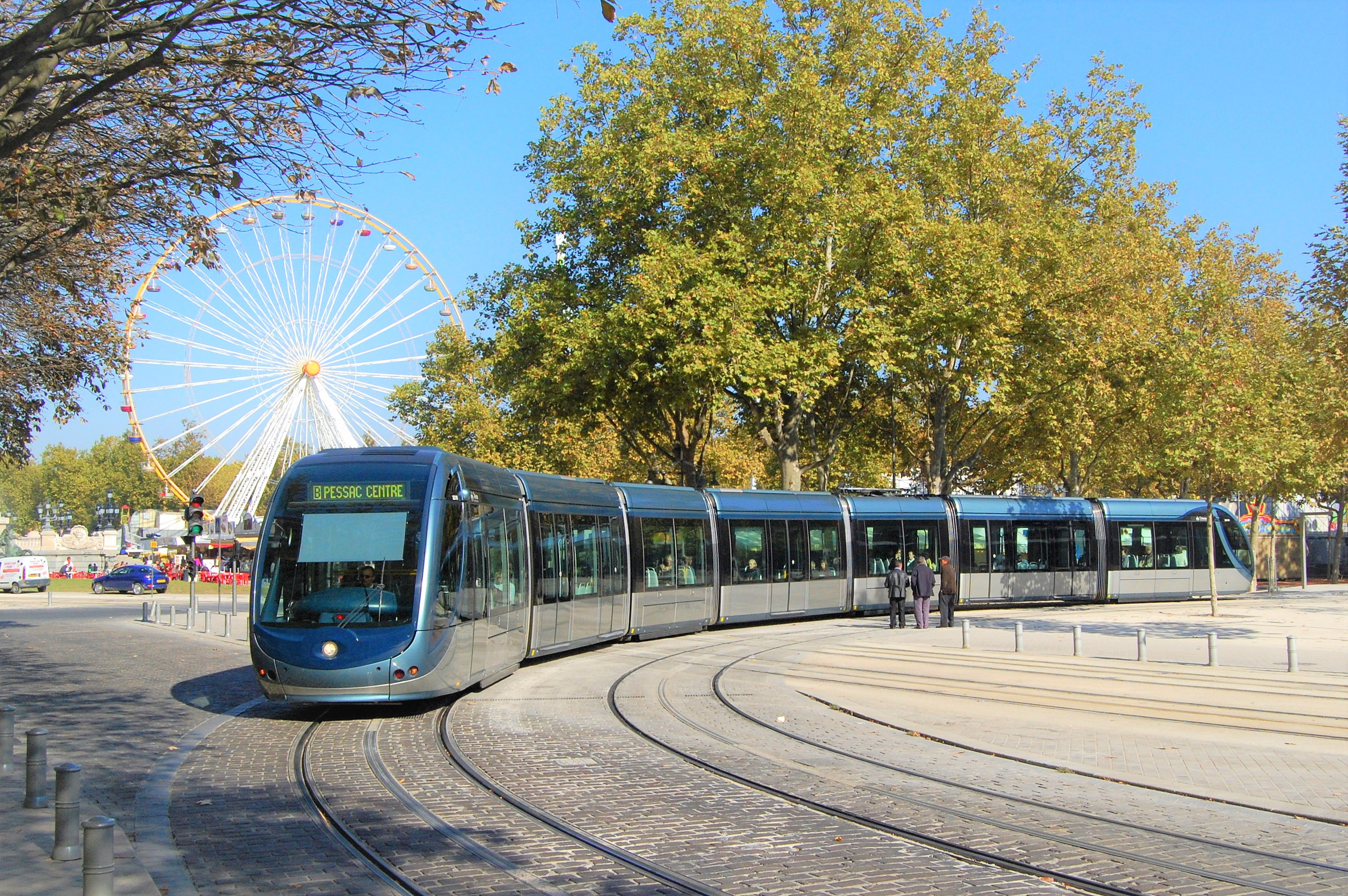 citadis of the Line B near the square "place des Quinconces", Bordeaux, France